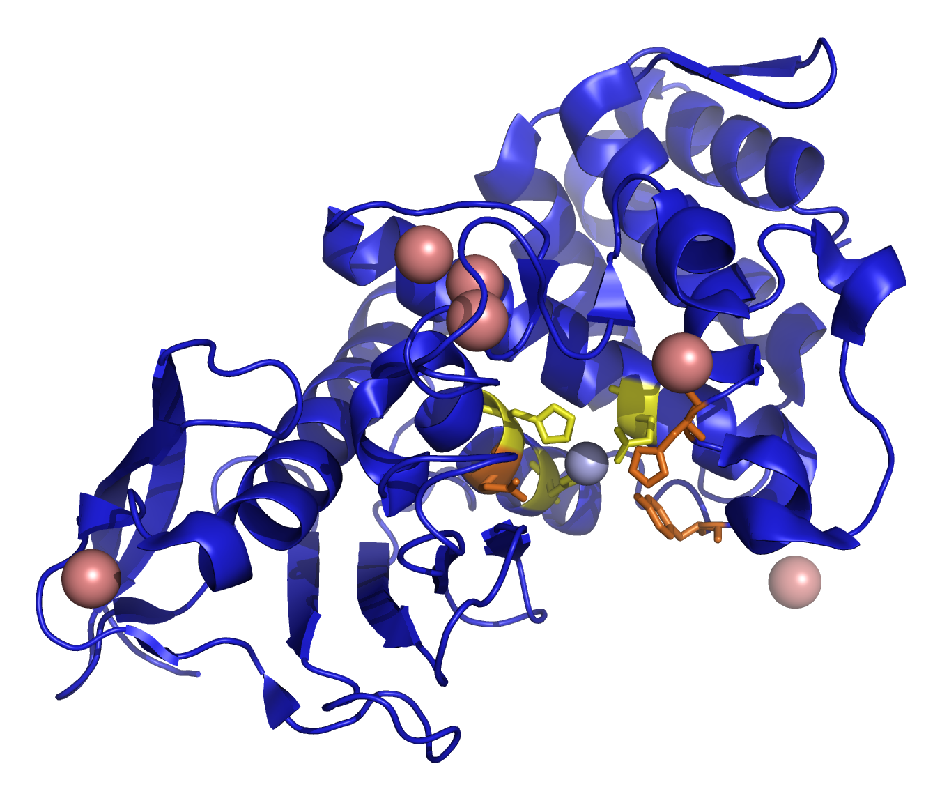 ribbon model of thermolysin with zinc binding amino acids in yellow, other amino acids important for catalysis in orange; zinc is light blue, the six calcium are in salmon. From PDB 2A7G. Ref.: C.Mueller-Dieckmann et al. (2005). On the routine use of soft X-rays in macromolecular crystallography. Part III. The optimal data-collection wavelength.. Acta Crystallogr D Biol Crystallogr, 61, 1263-1272. PMID 16131760 [